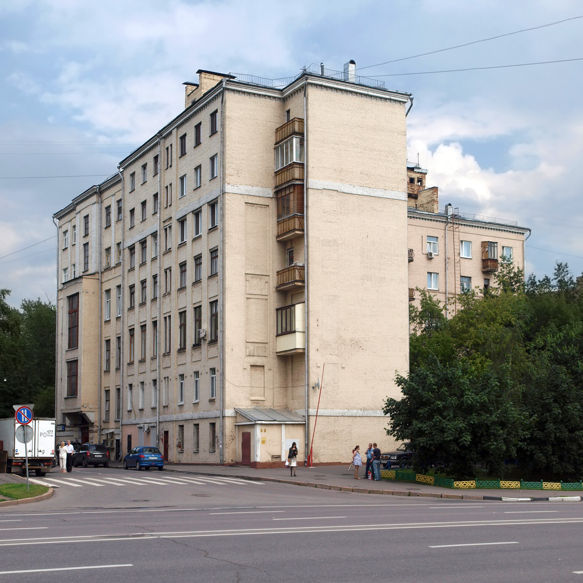 Dinamovskaya Street, Moscow. This was the first multi-storey building completed in Moscow after the 1917 revolution and the Civil War.